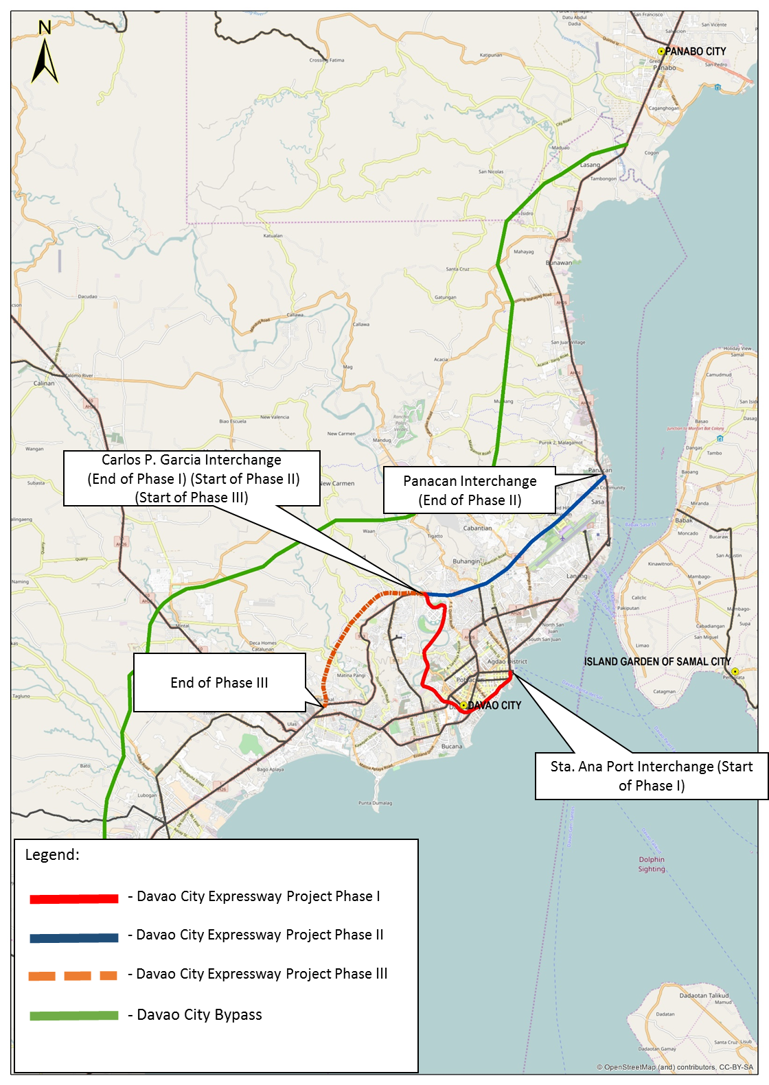 This map displays the planned Davao City Expressway.